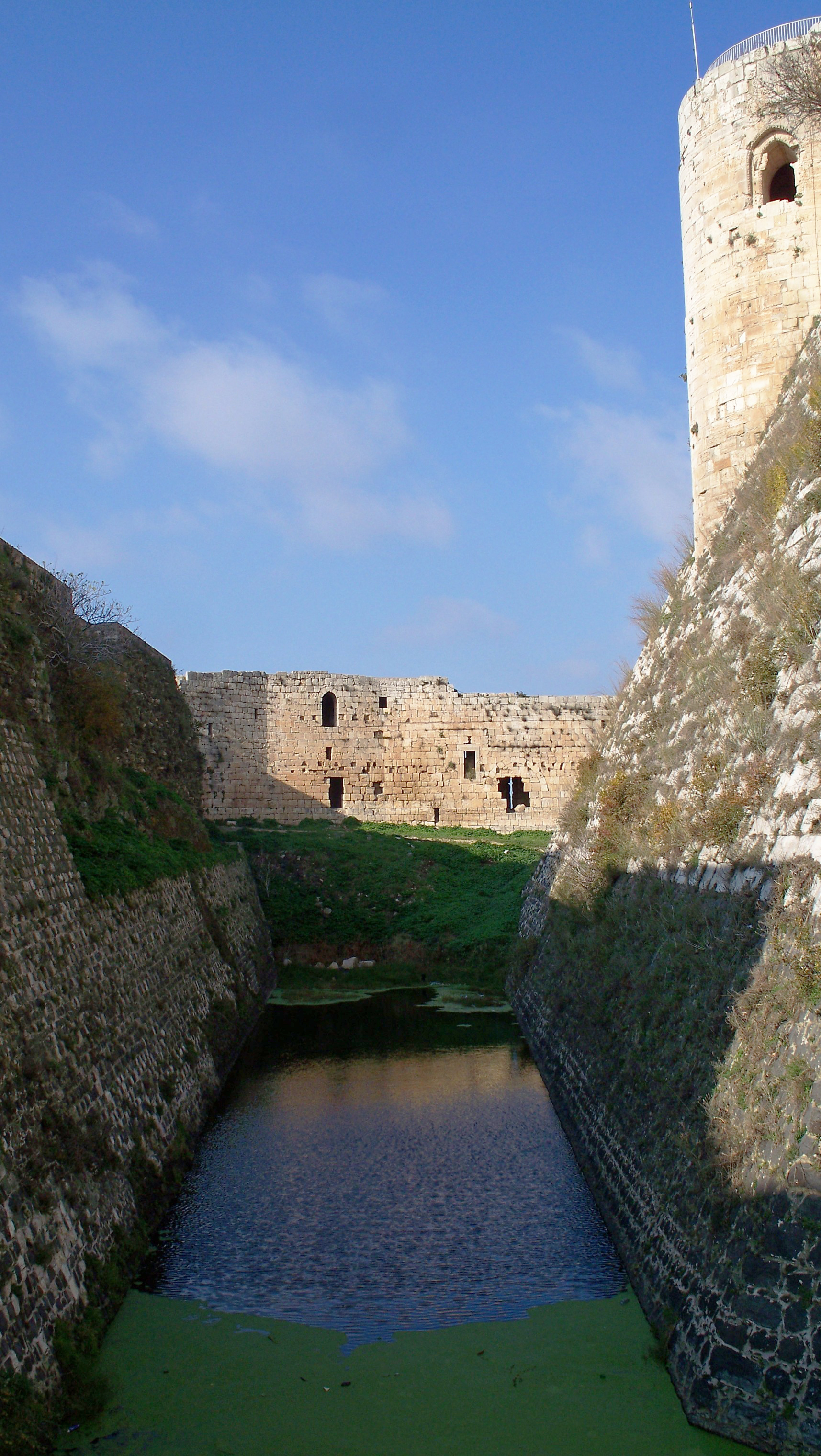 The water ditch of Krak des Chevaliers.